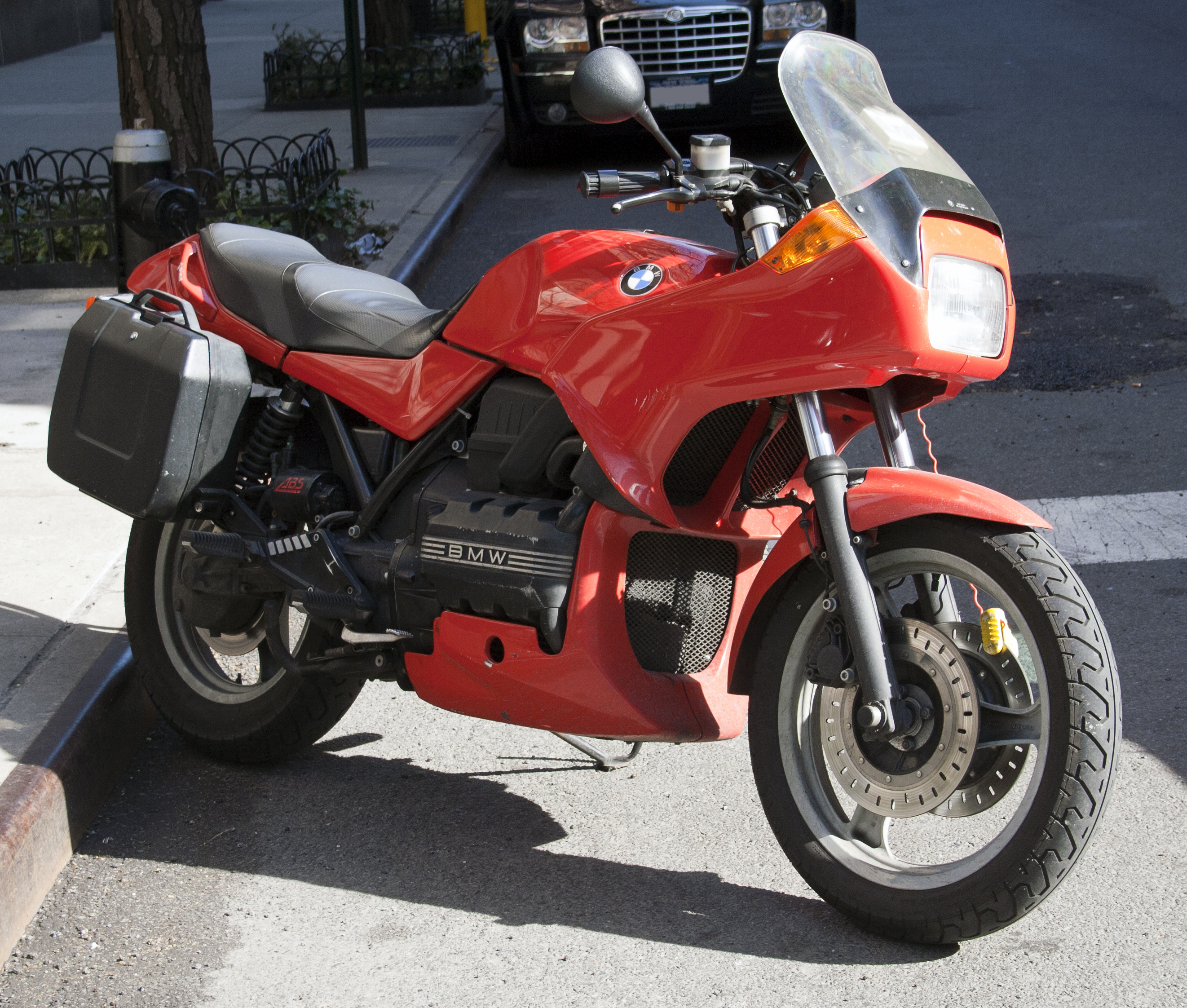 BMW K75S, with belly pan and permanent sport fairing - and ABS brakes